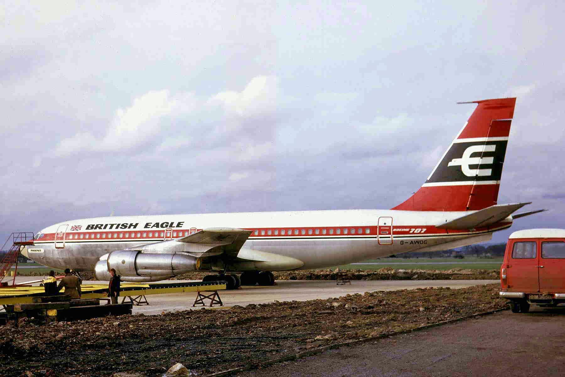 I was made redundant when British Eagle folded in Nov-68. 01-Feb-69 was my first day with the original Caledonian Airways at Gatwick and Laker's hangar was right next door. Laker had just leased the two ex British Eagle 707-138B's and this had recently ferried over from Heathrow. I was in the right place at the right time... for once!